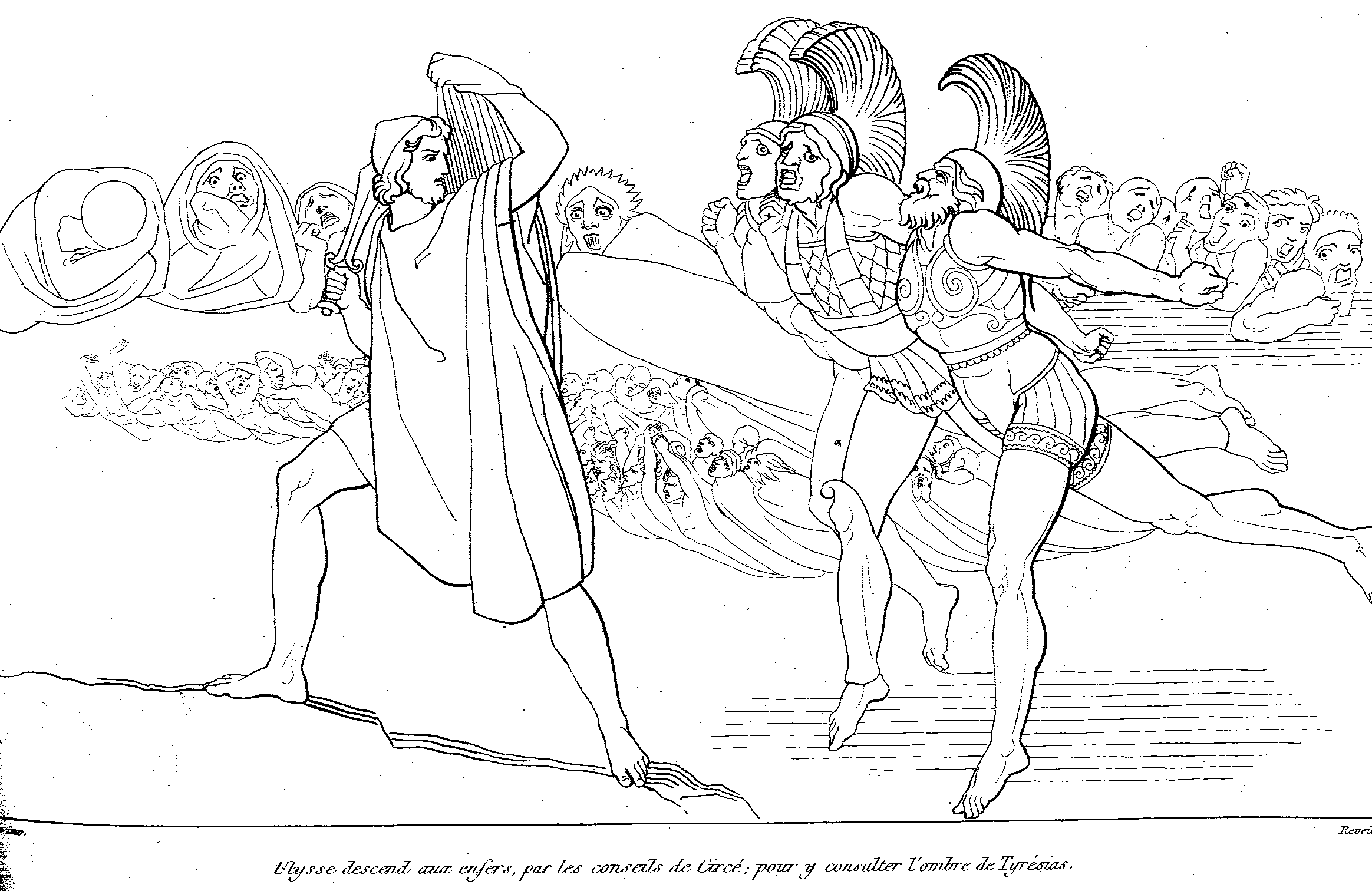 Illustrations of Odyssey